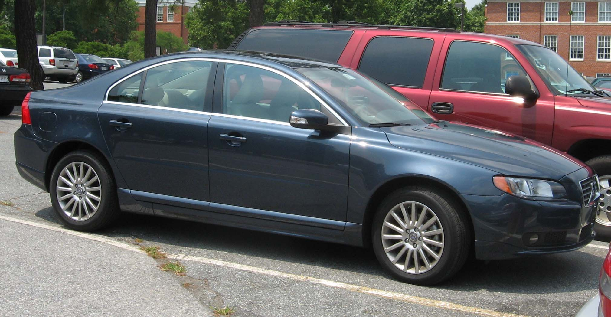 2007 Volvo S80 photographed in USA.